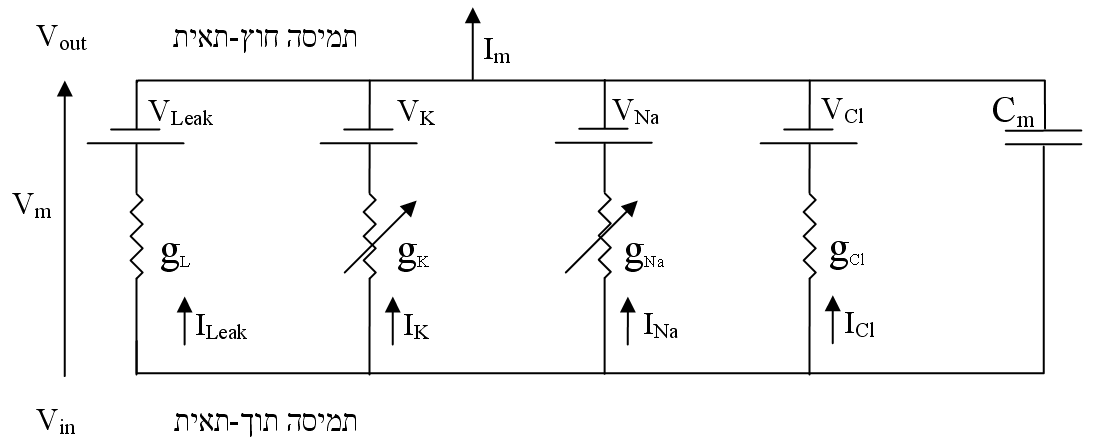 Equivalent circuit for the cell membrane in the Hodgkin-Huxley model